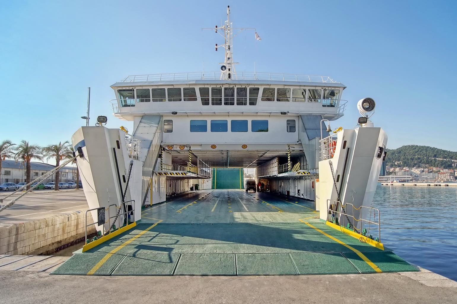 Hrvat in the port of Split, Croatia Time-space: Nov 16, 2011; CET 13:38:34; N 43°30'05", E 16°26'22".